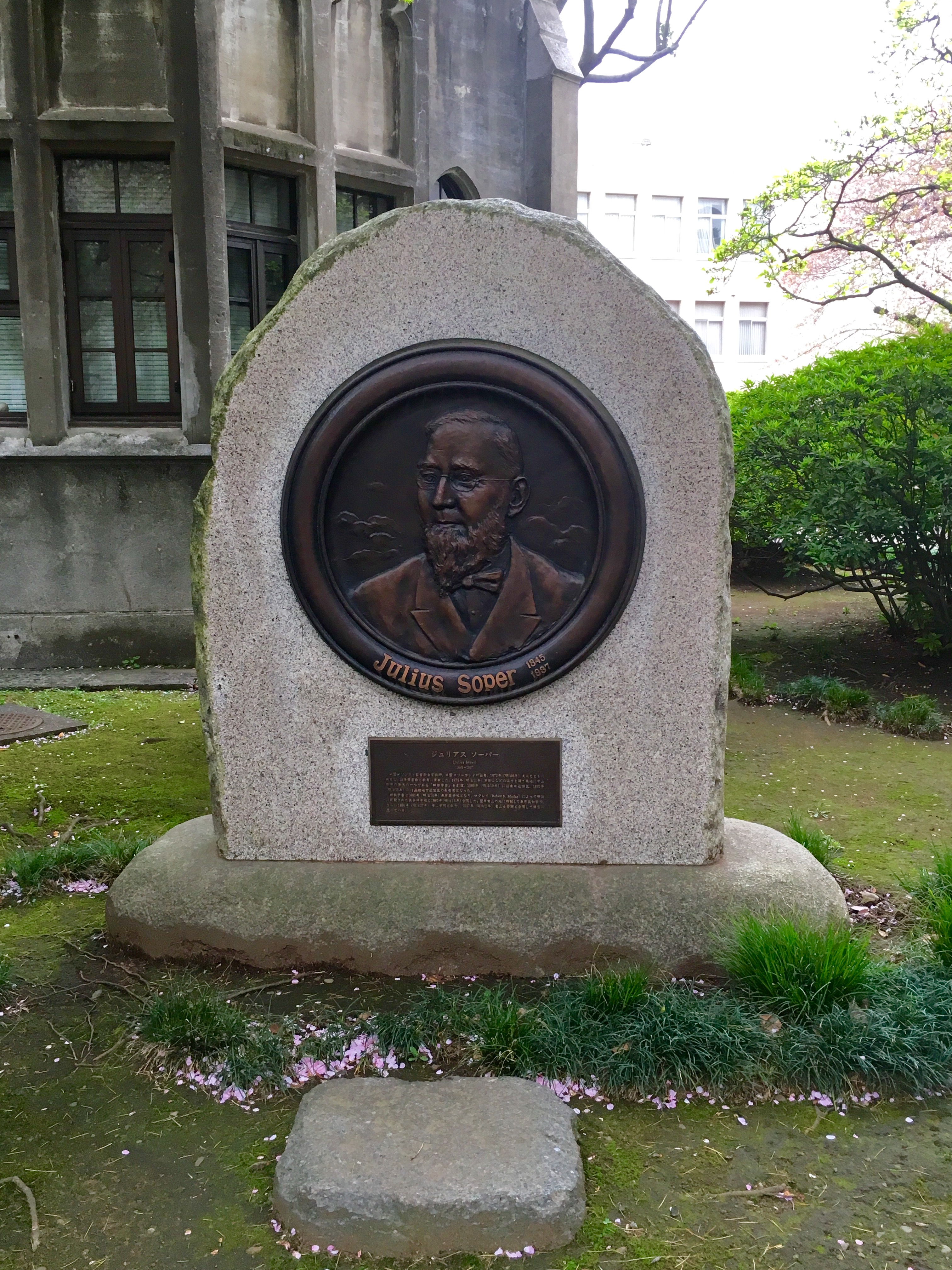 This is the monument of Julius soper, located in the campus of Aoyama Gakuin .